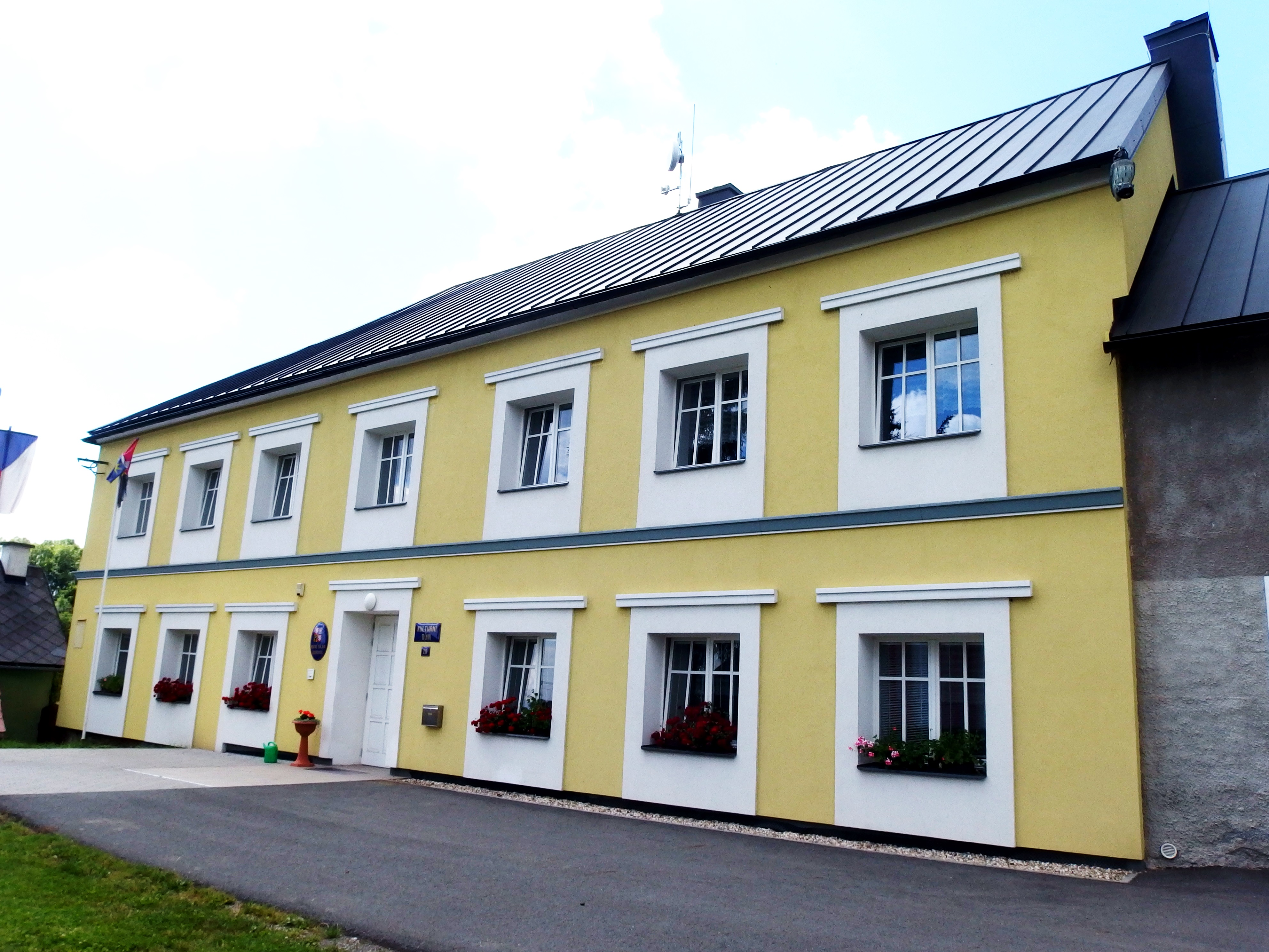 Jakubovice, Šumperk District, Czechia.